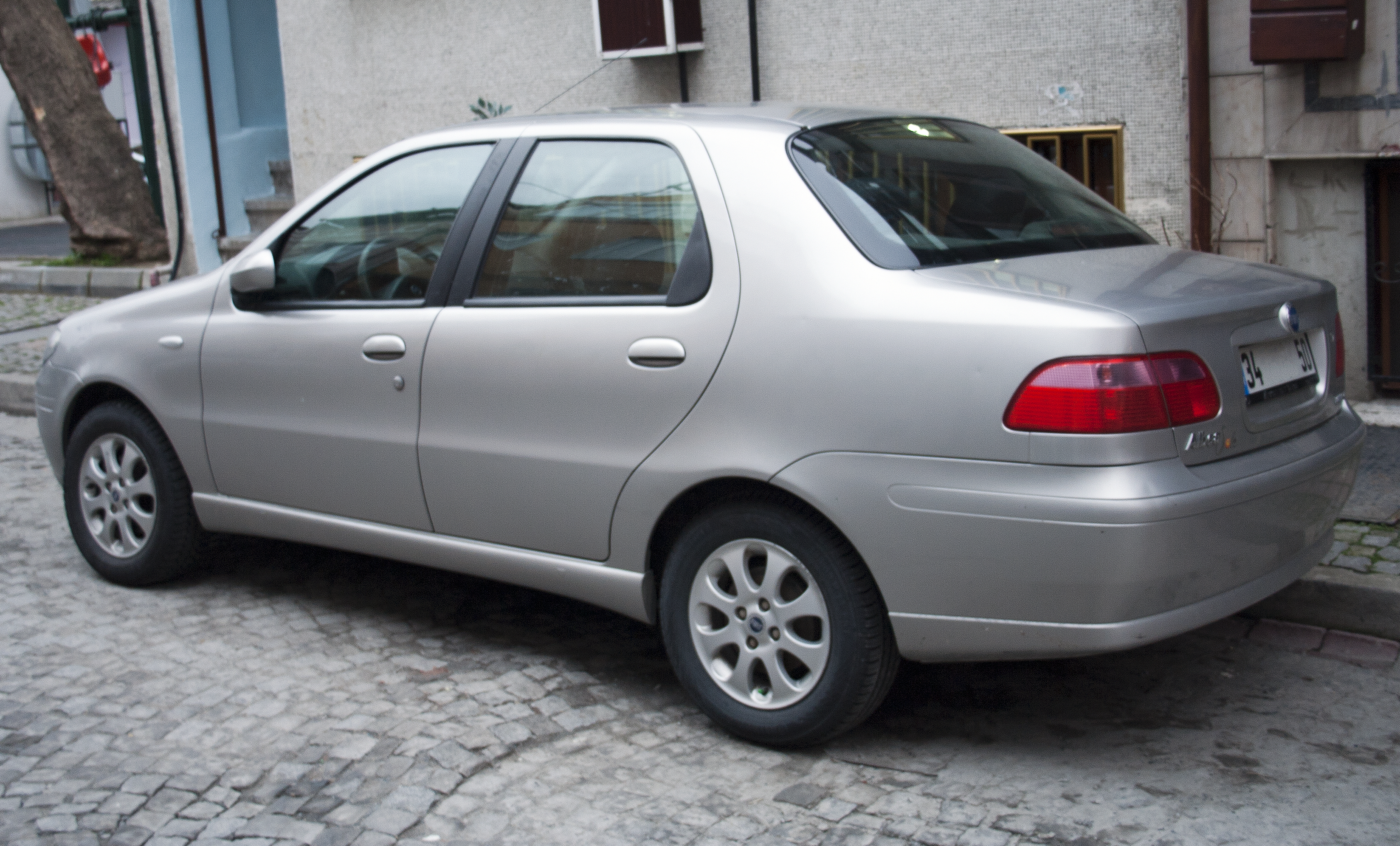 2007-2012 Fiat Albea Sole, a special version (with alloys!) of the 2006 facelift version of the Albea. Seen in Istanbul.